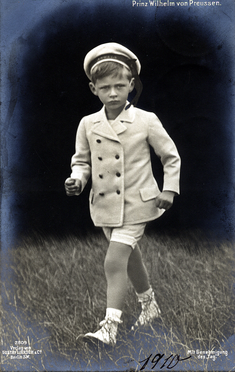 Prince Wilhelm of Prussia, 1910